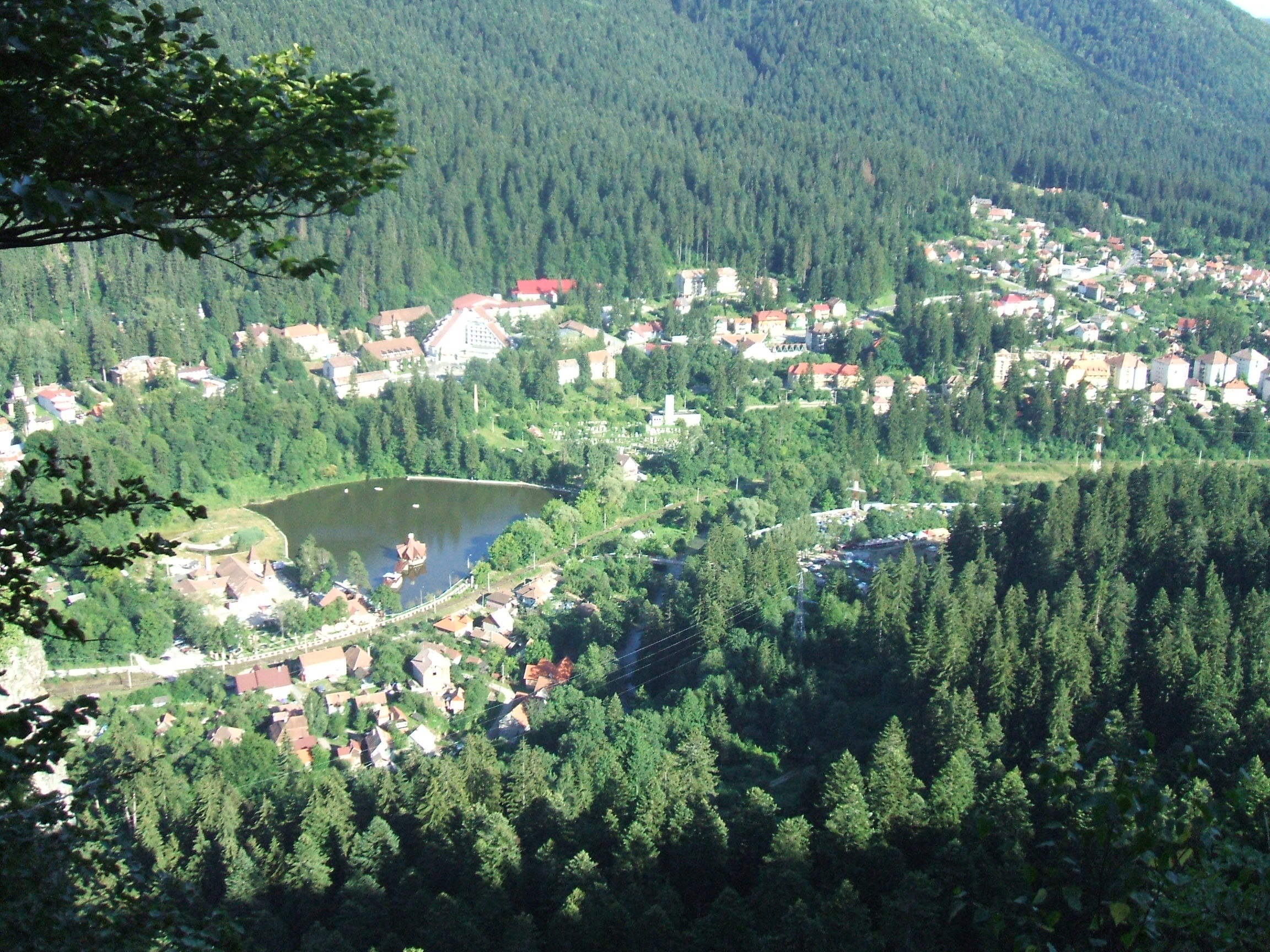 Tusnádfürdő center, upside view from Sólyom-kő hilltop